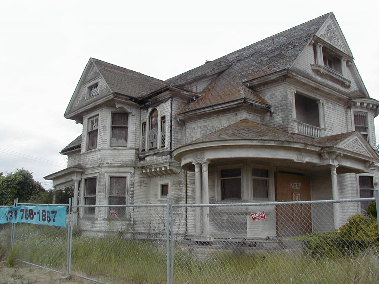 This is the Redman Hirahara House in 2005. It was designed by William Weeks in 1897.